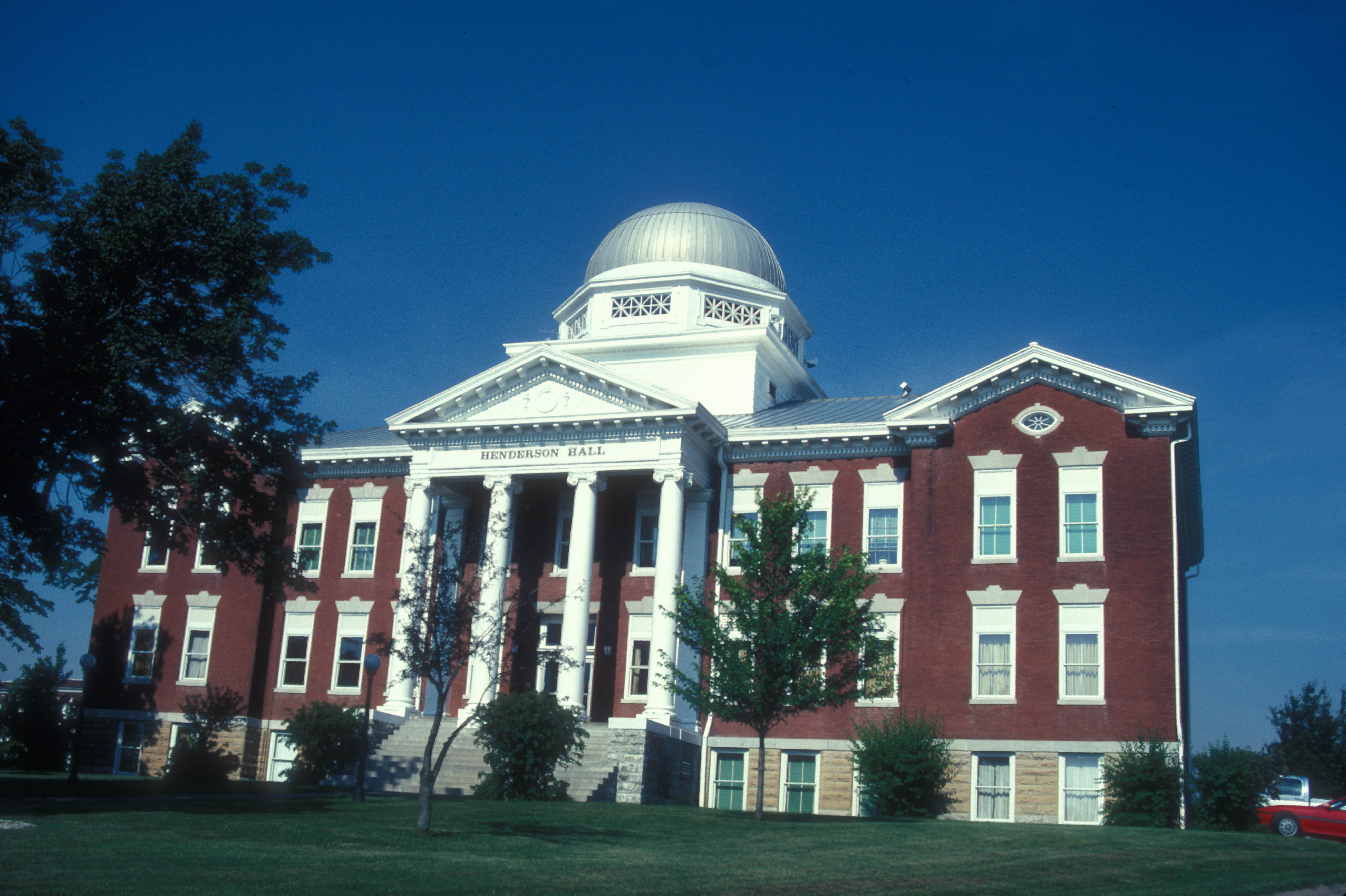 Henderson Hall of Culver-Stockton College - the first co-educational college west of the Mississippi River chartered in 1853. The building was used as a Union headquarters for northeast Missouri during the war.